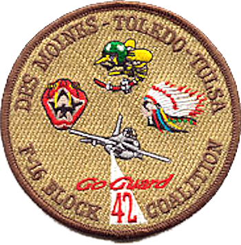 Operation Southern Watch Patch Prince Sultan AB, Saudi Arabia (Home Stations: Toledo Express Airport, Ohio; Des Moines IAP, Iowa and Tulsa IAP, Oklahoma)